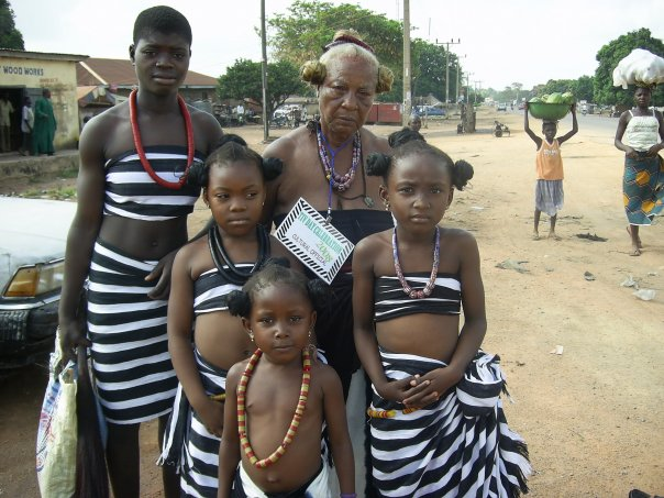 Elderly women with grand daughters dressed elegantly in black and white cotton garmets, depicting the cultural dressing of the Tiv indigenous people of Nigeria. This is an image from Nigeria